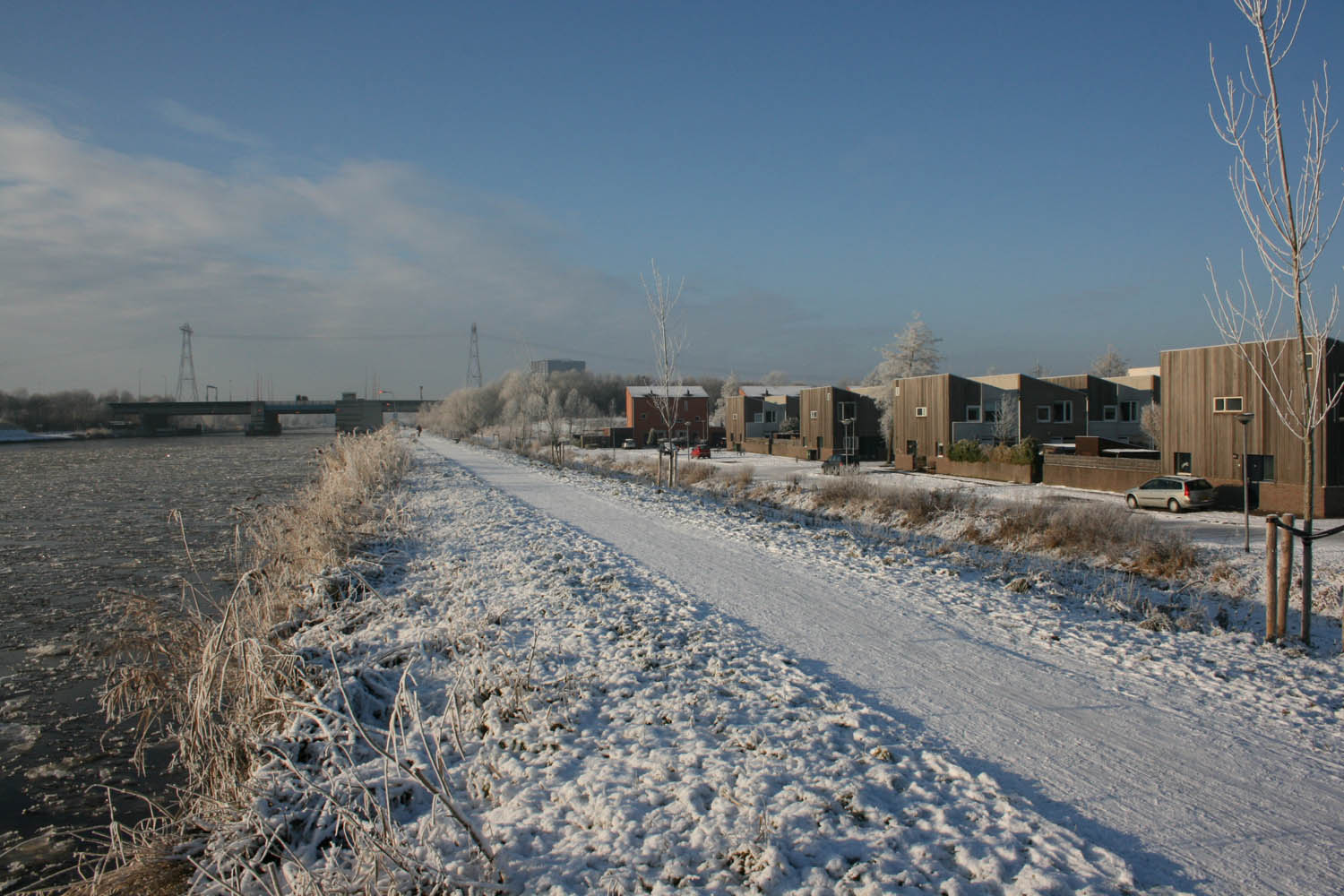 Ruischerwaard in Groningen